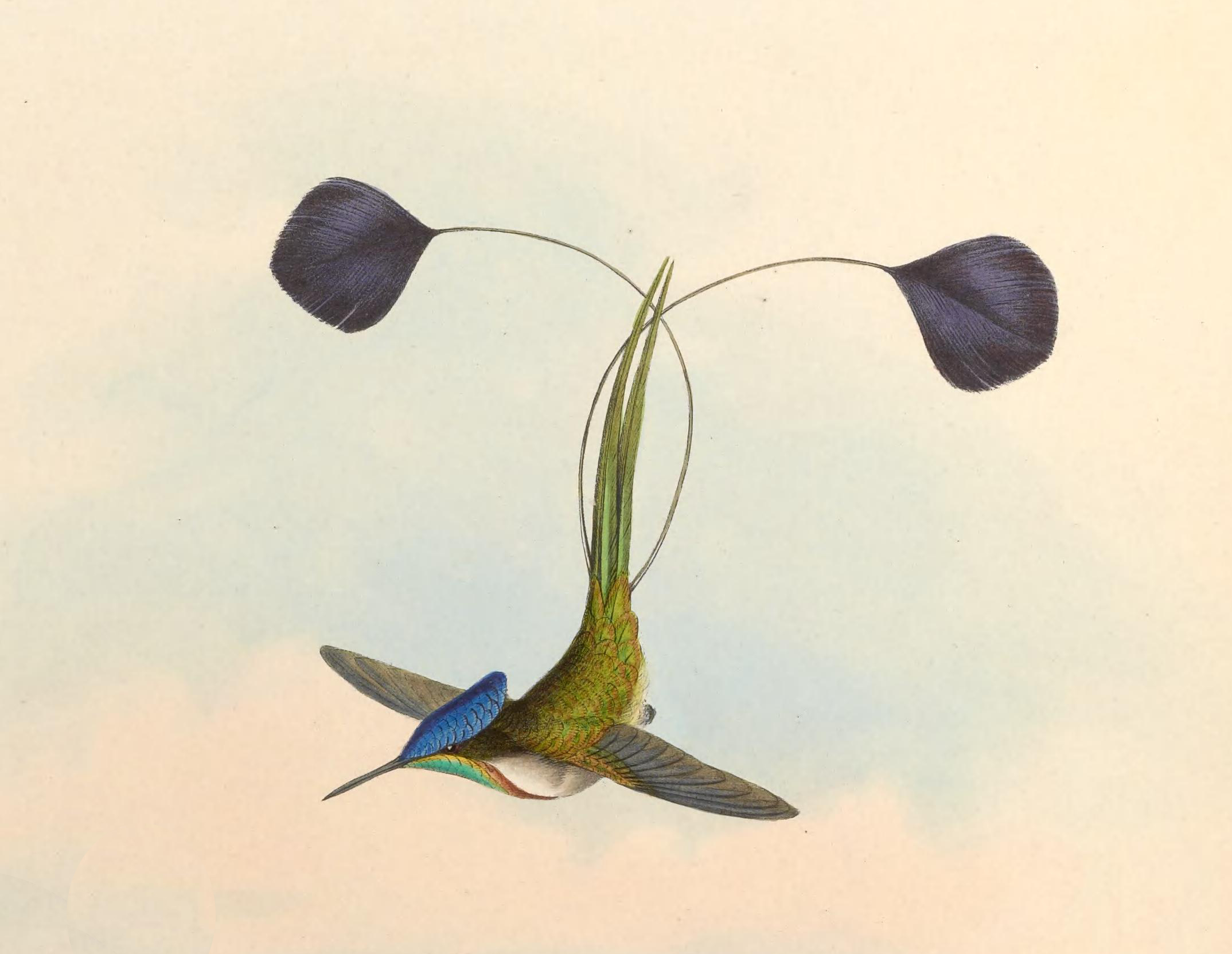 Illustration (detail) of Loddigesia mirabilis (hummingbird) on Aechmea mertensii (as syn. A. mucroniflora) (bromeliad)